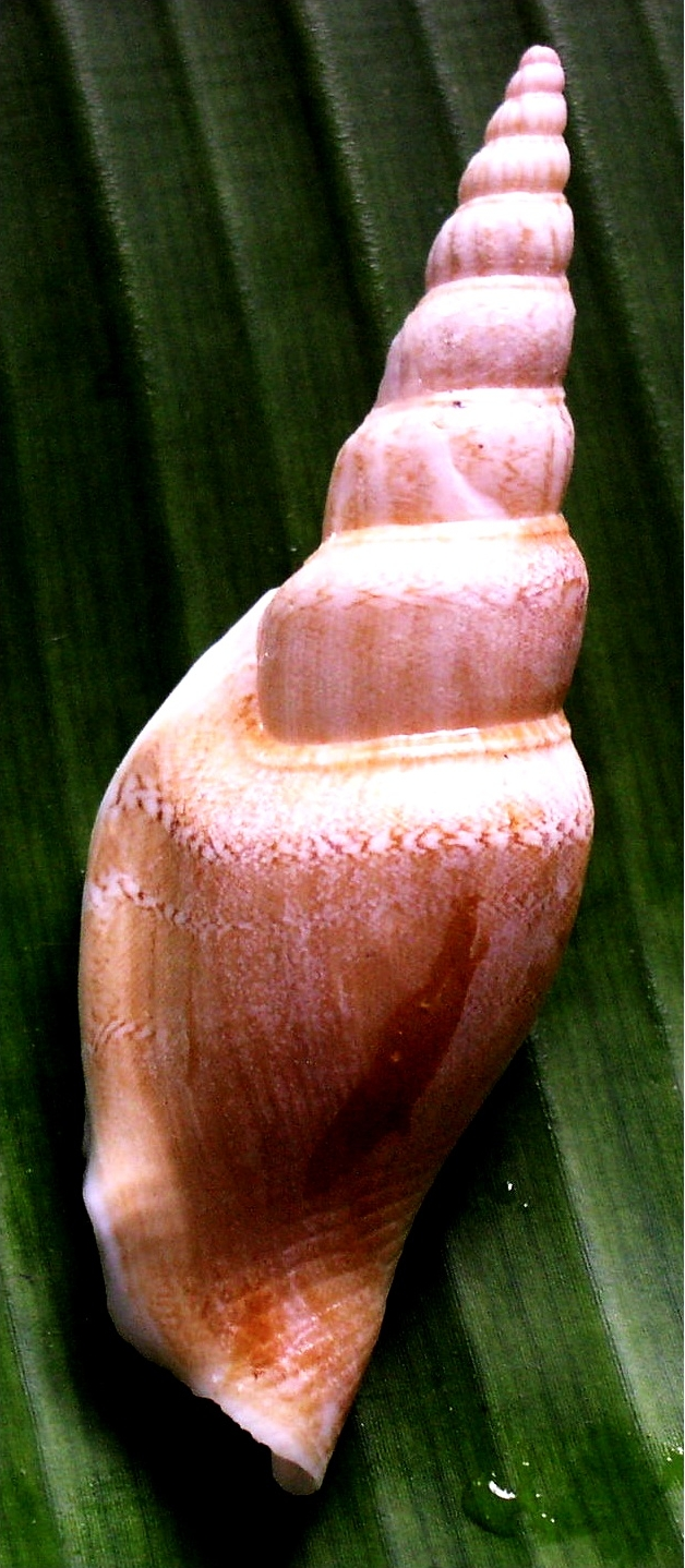 Photo of the shell of Vittate Conch Strombus vittatus.